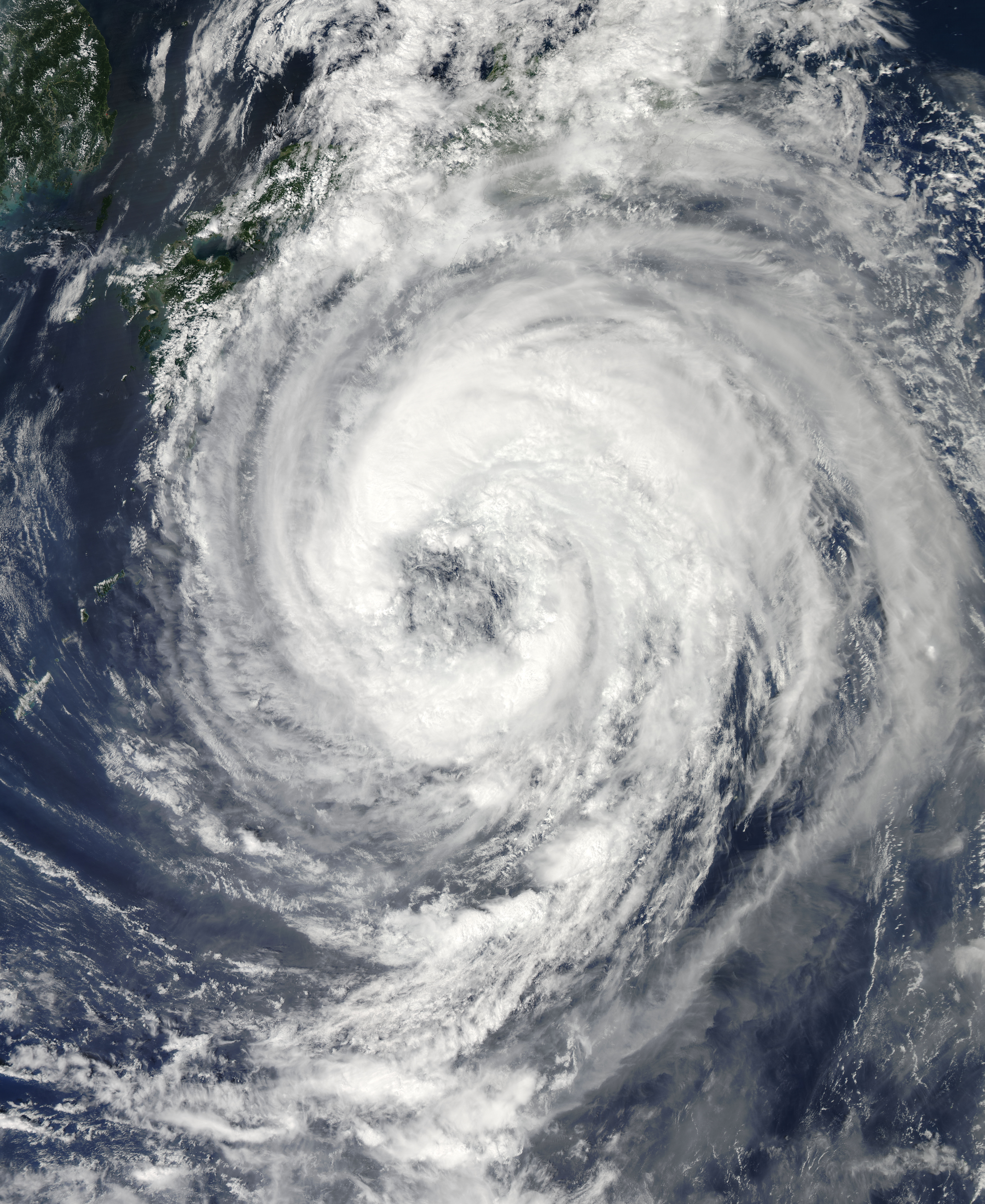 Severe Tropical Storm Talas approaching Japan on September 1, 2011.